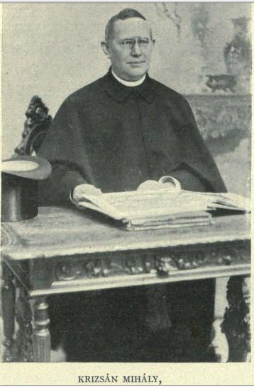 Portrait of Krizsán Mihály